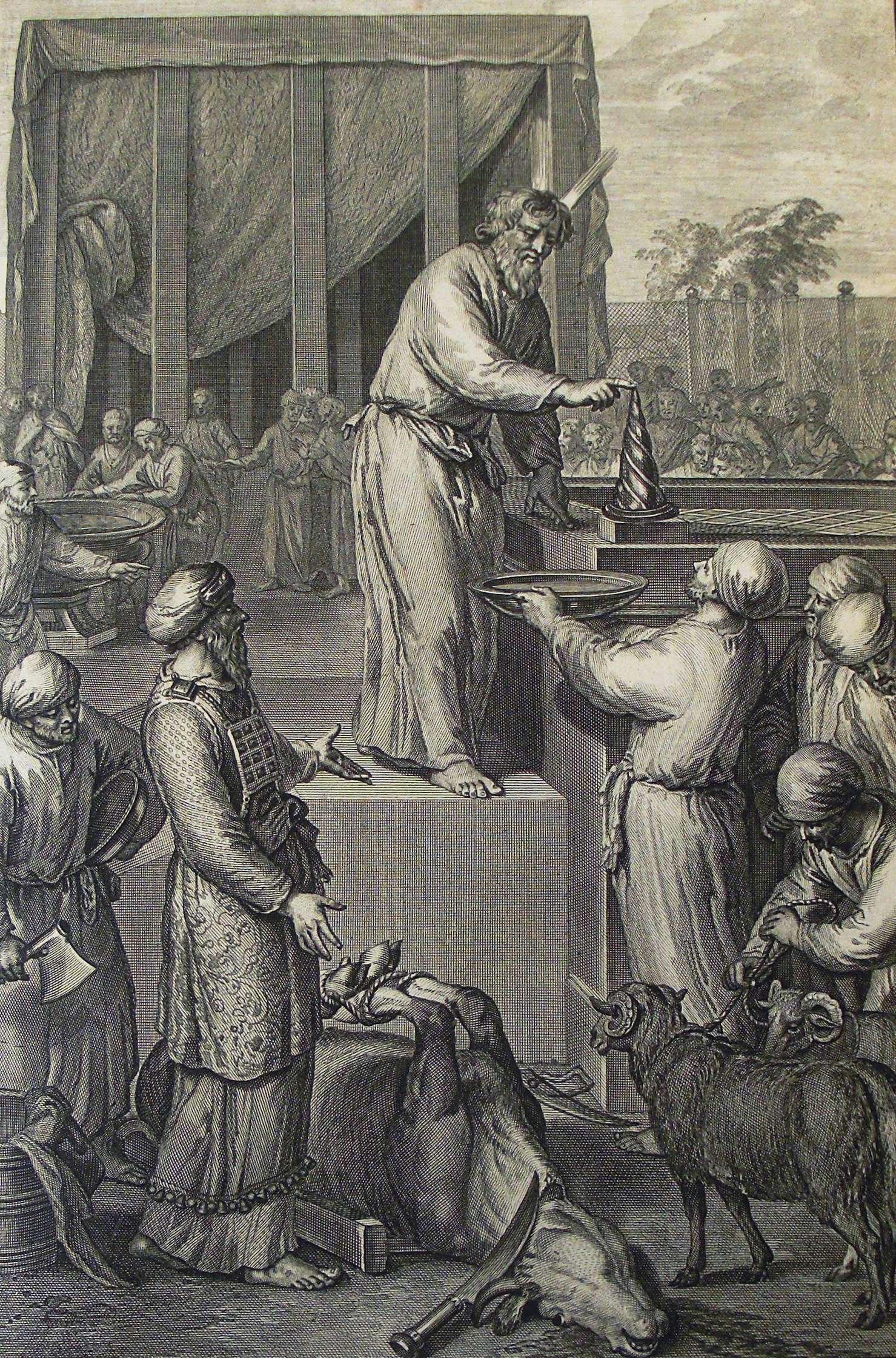 A print from the Phillip Medhurst Collection of Bible illustrations in the possession of Revd. Philip De Vere at St. George’s Court, Kidderminster, England.